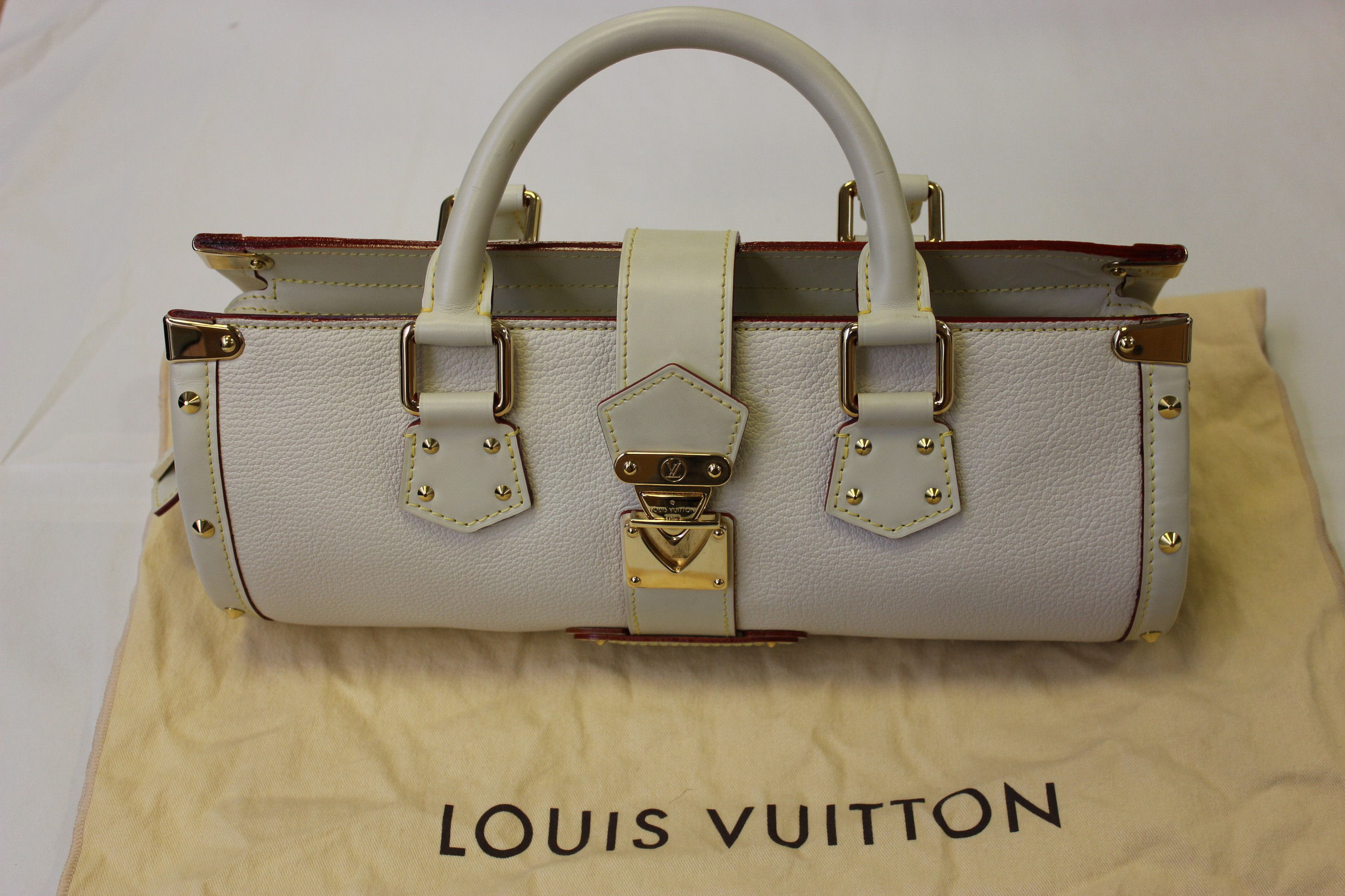 For more on this, visit bit.ly/NJ46ex